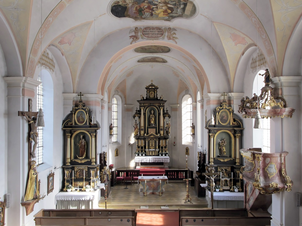 Village Schliersee, Church St.Martin